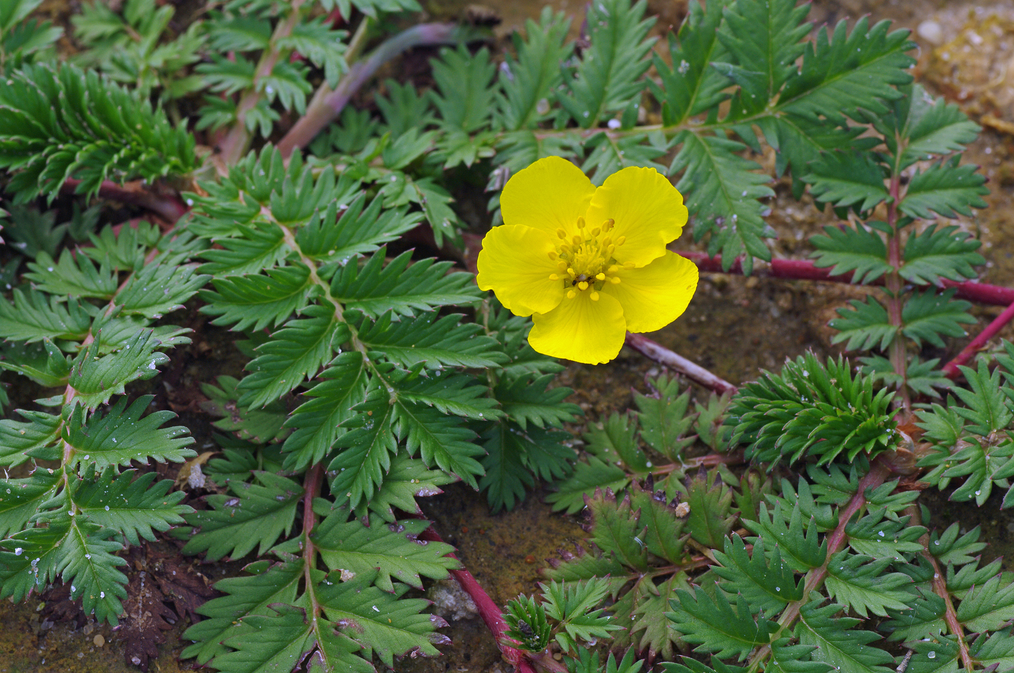 Flowering Common Silverweed, Potentilla anserina.